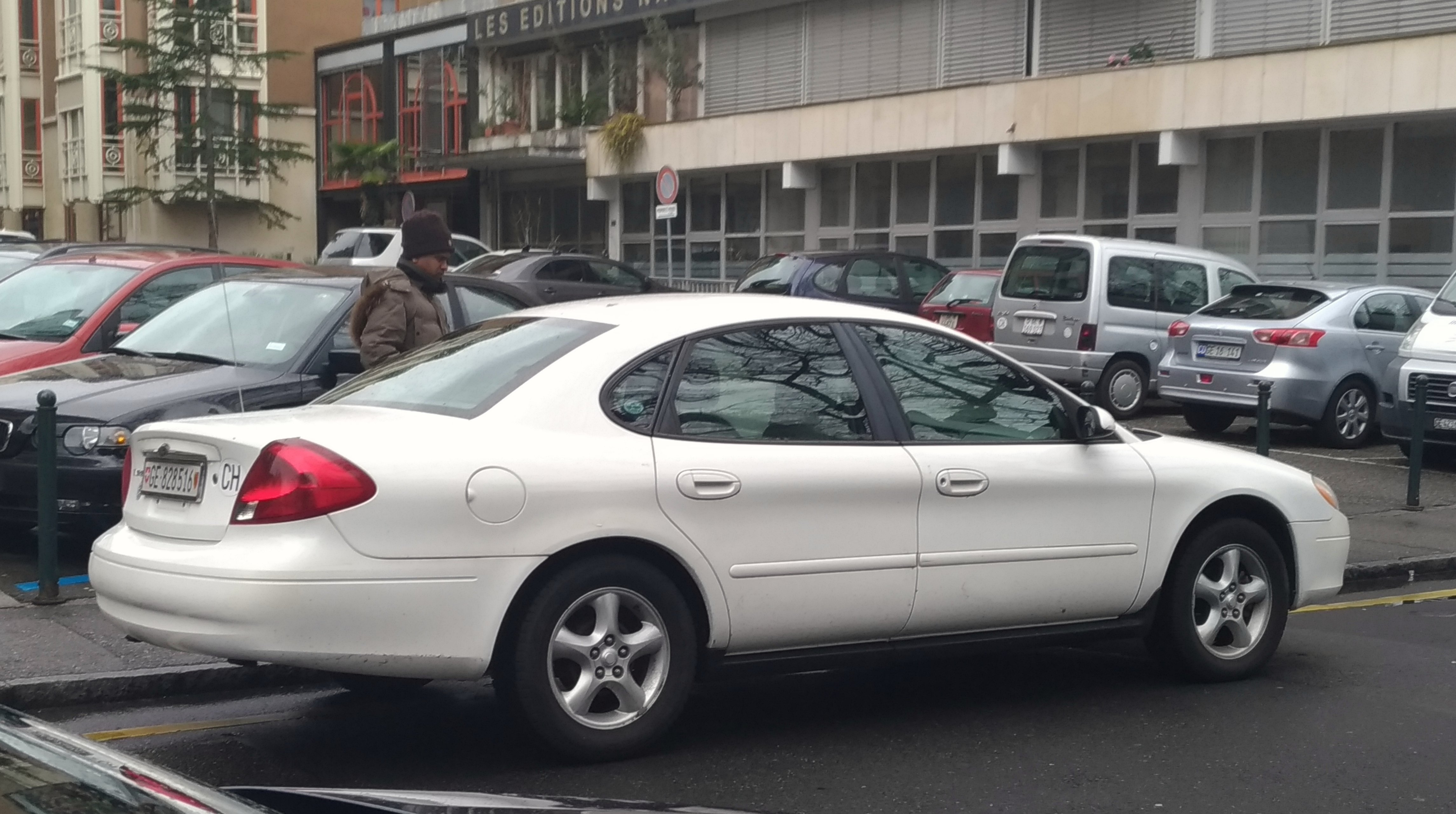 Ford Taurus (V6 3.0) at Geneve